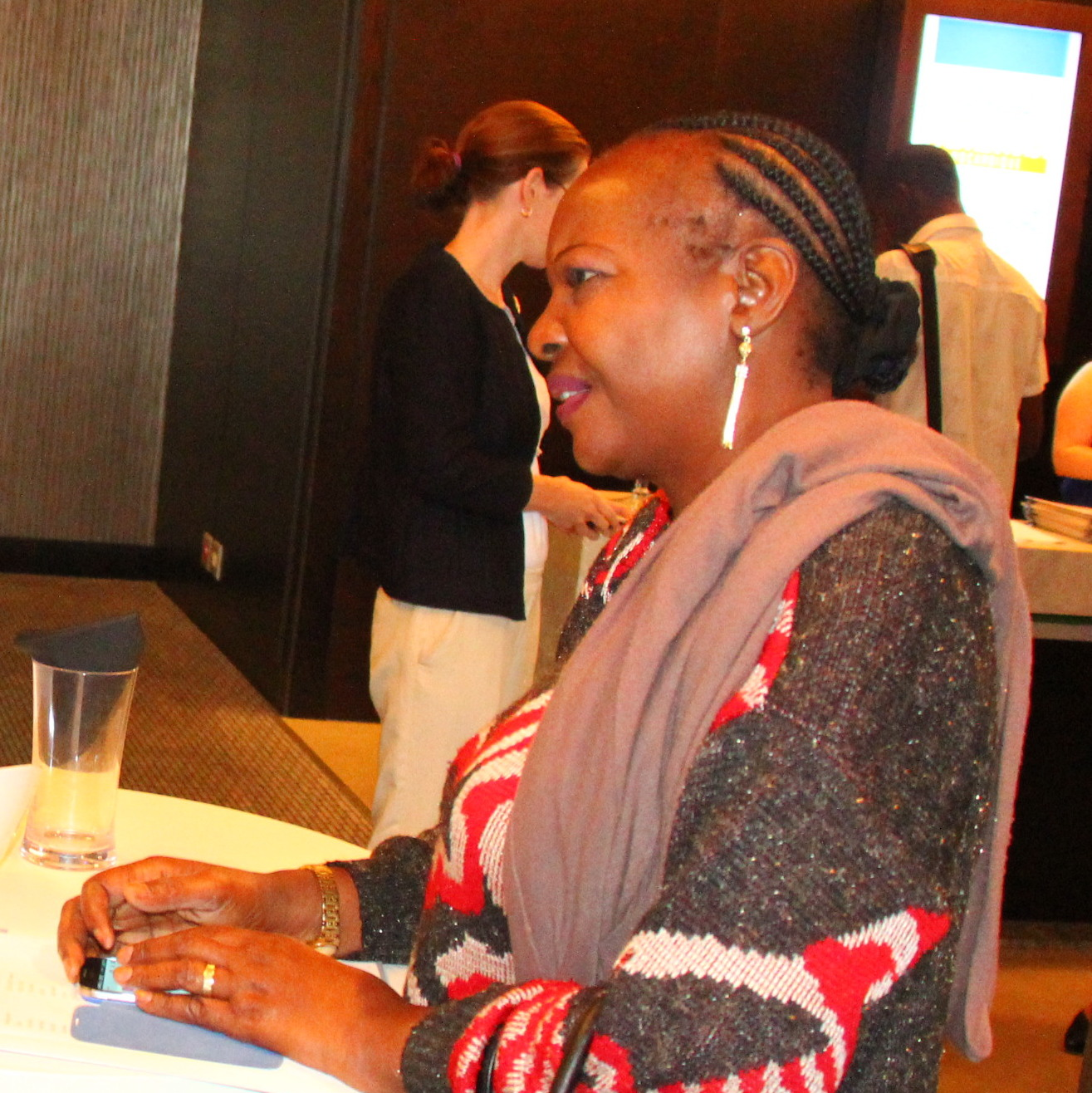 US Embassy's Daniel Fench talking with human rights activist Alice Mabota during the "Machamba de Tecnologias" techcamp in Maputo, Mozambique